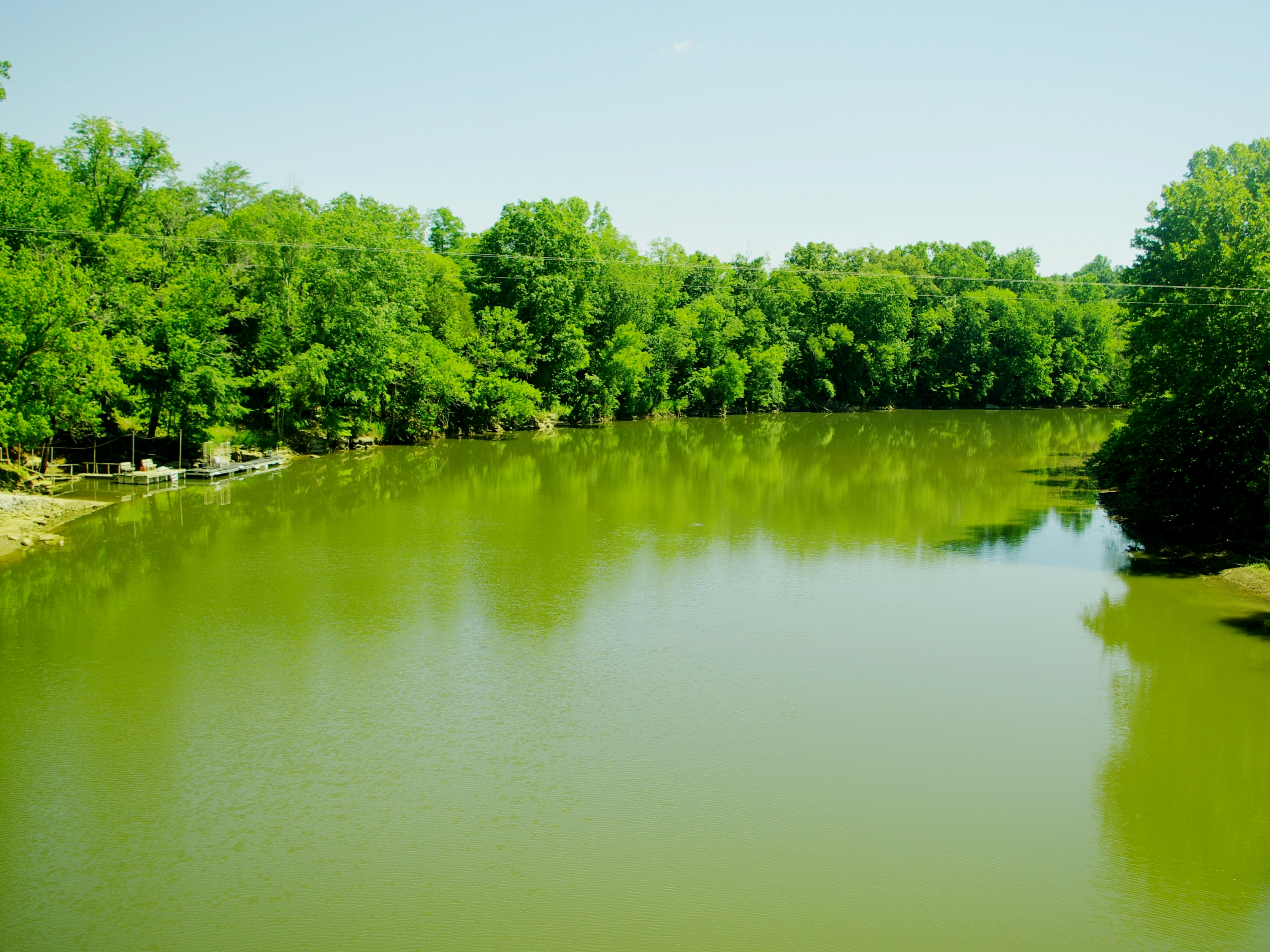 The Rocky River in the U.S. state of Tennessee, viewed from the Bone Cave Road bridge. This section of the river marks the county line between Van Buren County and Warren County.